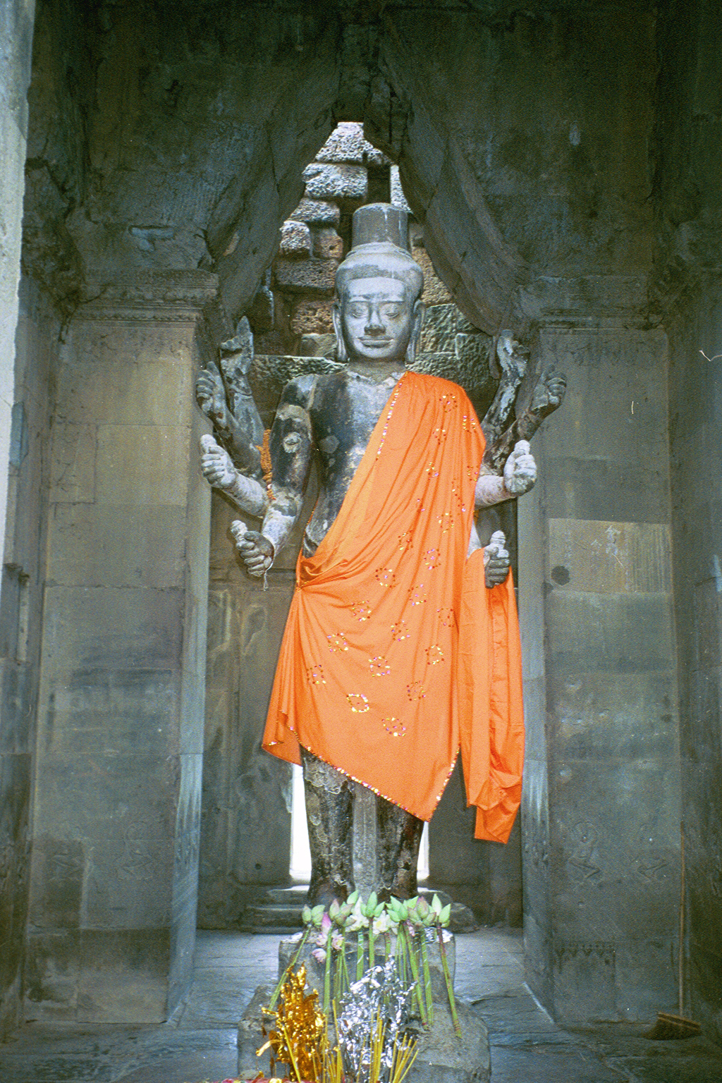 This statue of Vishnu (or Ta Reach), the Hindu deity to whom the Temple of Angkor Wat is dedicated, is situated in the West Entryway of the Outer Enclosure and stands around 5 meters tall. It is carved from a single piece of sandstone and is draped with clothing and offerings from modern pilgrims to the site.